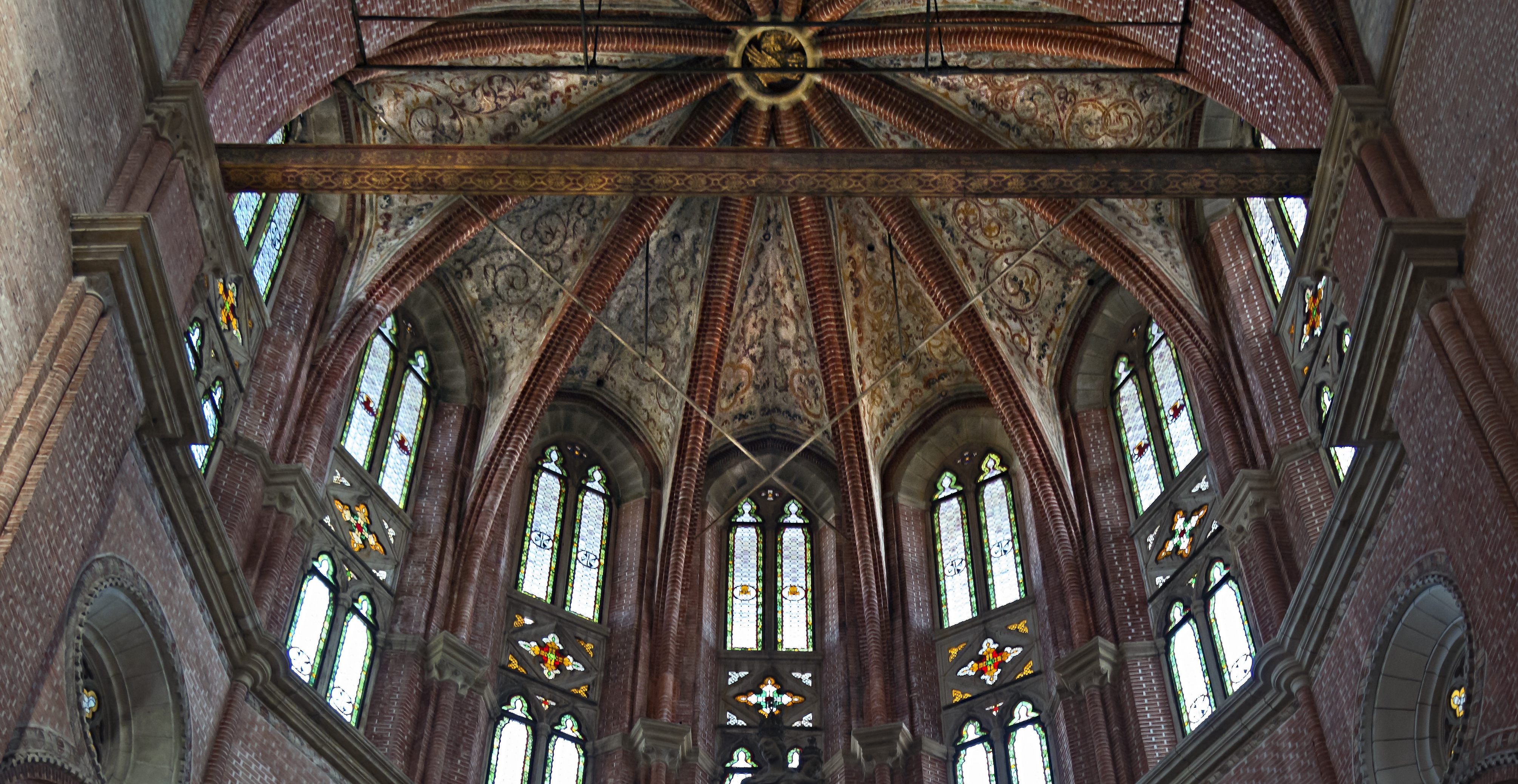 Santi Giovanni e Paolo in Venice. View of the choir ceiling, showing the restoration work.